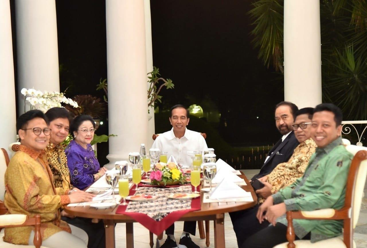 Joko Widodo having a dinner with leaders of the Indonesian government coalition party leaders, July 2018. Left to right: Muhaimin Iskandar Airlangga Hartarto Megawati Sukarnoputri Joko Widodo Surya Paloh Oesman Sapta Odang Muhammad Romahurmuziy